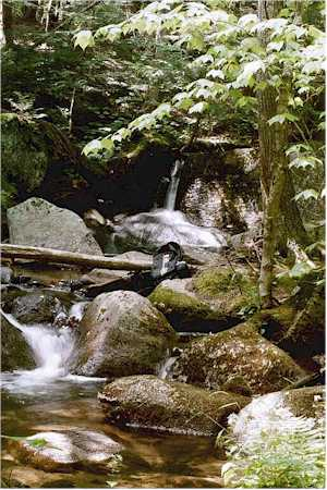 Andorra Forest preserve, New Hampshire